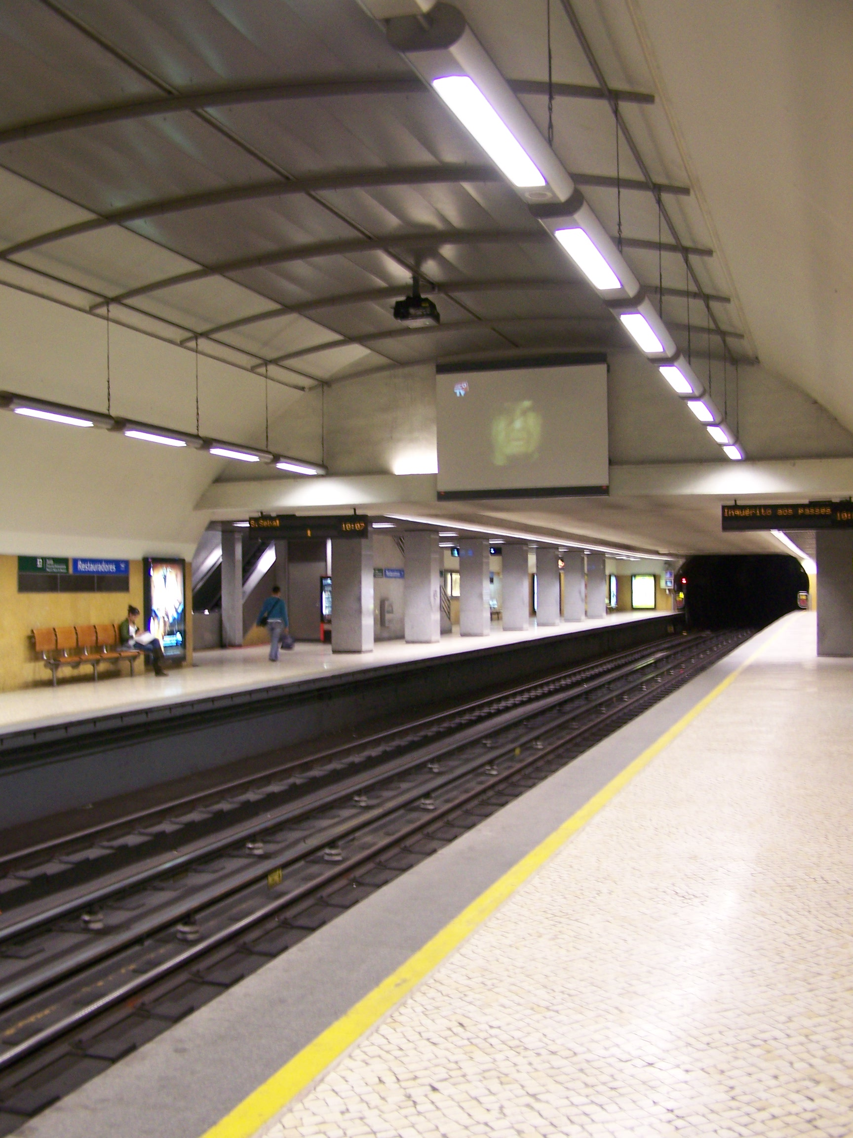 platform of the underground station "Restauradores", Lisbon, Portugal